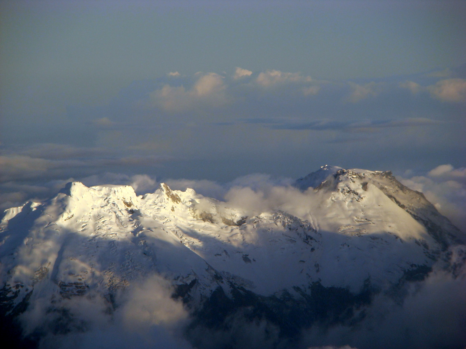 You can observe the big glacier fall at the central peak.